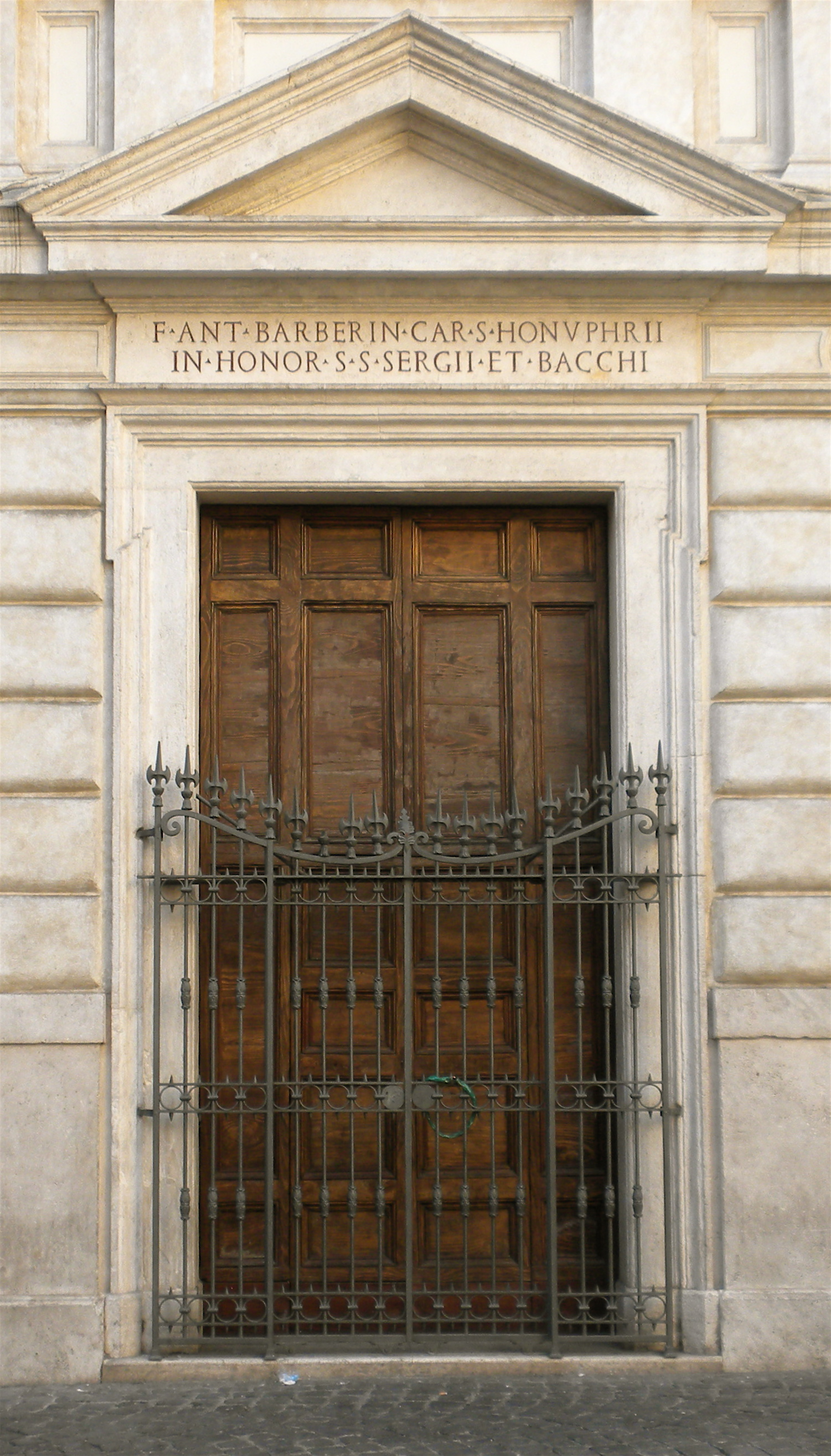 Phototgraph of Doorway Sergio e Bacco